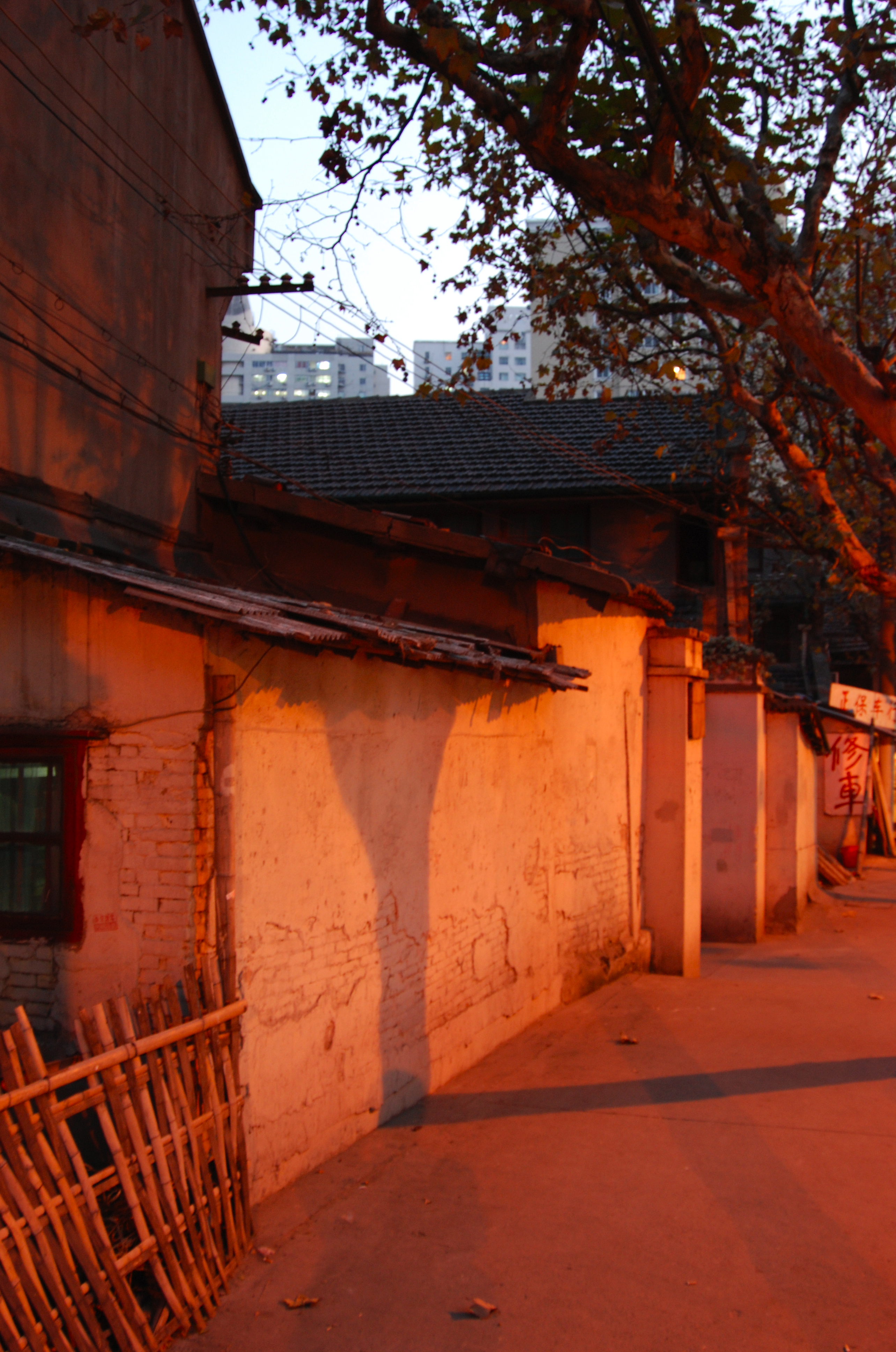 Old and worn-out houses along Xietu Road